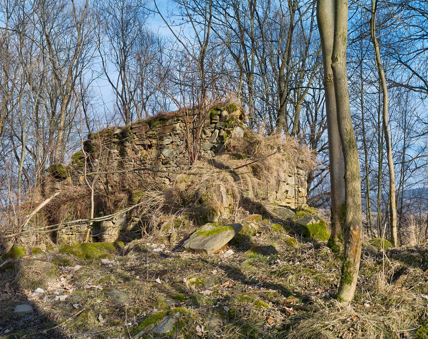 Ruined homestead in former Babi village (Cesky Krumlov District), Czech Republic